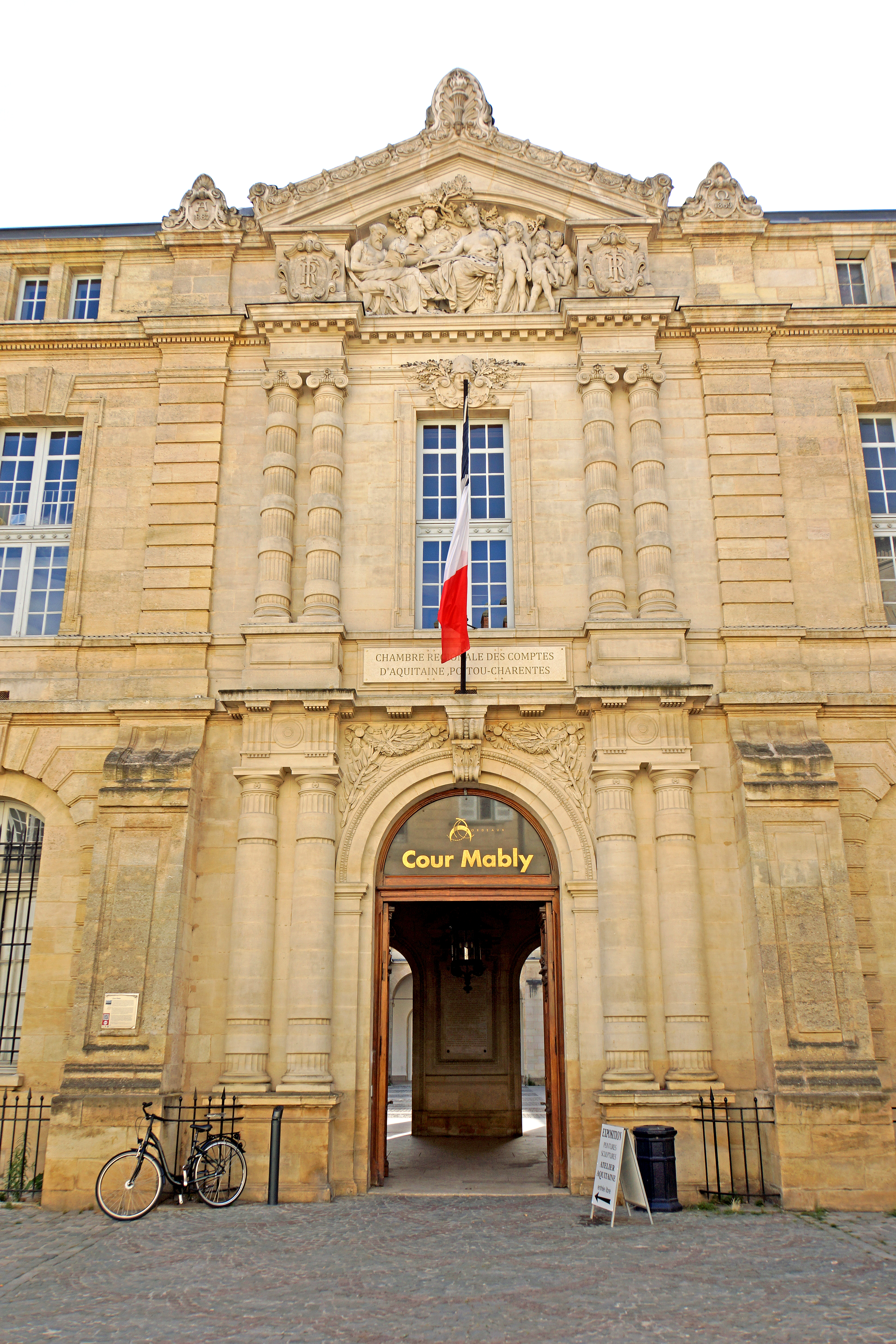 PLEASE, NO invitations or self promotions, THEY WILL BE DELETED. My photos are FREE to use, just give me credit and it would be nice if you let me know, thanks. Cour Mably - originally, the courtyard was one of the two cloisters (the other is long gone) of a convent originally set up around 1230 by the Dominicans. The configuration which still stands was designed by the military engineer Pierre-Michel Duplessy with Friar Jean Maupeou and built during the same period – 1684 to 1707 – as the neighbouring Notre Dame church. Today the upper floors of the buildings, which were refurbished, have been leased back to the State and house the Aquitaine regional chamber of accounts. The chapter house hosts art exhibitions and cultural events. Open-air concerts occasionally take place in the courtyard.